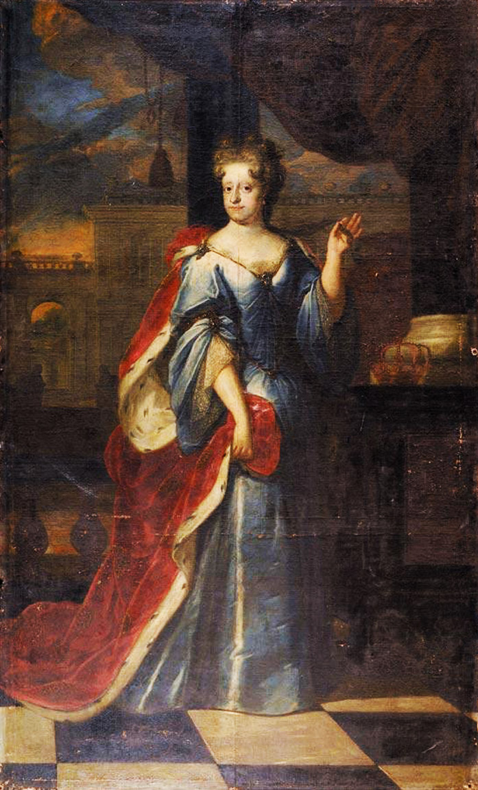 Portrait of Sophie Amalie of Brunswick-Lüneburg (1628-1685), wife of Frederik III of Denmark